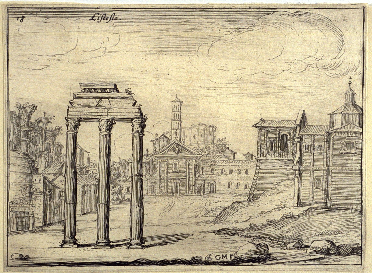 Listesso (The Same [i.e. Camp Vaccino]), pl. 18 from the series Alcune vedute et prospettive di luoghi dishabitati di Roma (Some Views and Perspectives of the Uninhabited Places of Rome) Artist: Giovanni Battista Mercati Date: 1629 Location: Not on display Century: 17th Century AD Media: Etching Dimensions:9.4 x 12.7 cm (image) Department:Achenbach Foundation Object Type:Print Country:Italy Provenance:D. Tunick, 1977; M.S. Sopher; From a set of fifty-two plates (B. 12-63), of which the first two, title page (B. 12) and dedication page ( B. 13), and no. 17( Campo Vaccino, B. 28) are apparently lacking (as of 10/23/96). Presently (1996) mounted with pl.20 ( A058266,1993.63.136, B.31) Accession Number:1993.63.115 Acquisition Date:1993-09-16 Credit Line:Mr. and Mrs. Marcus Sopher Collection Rome: three columns and the broken upper layer, all that remains of a classical structure, church at right and another in the distance across an open space